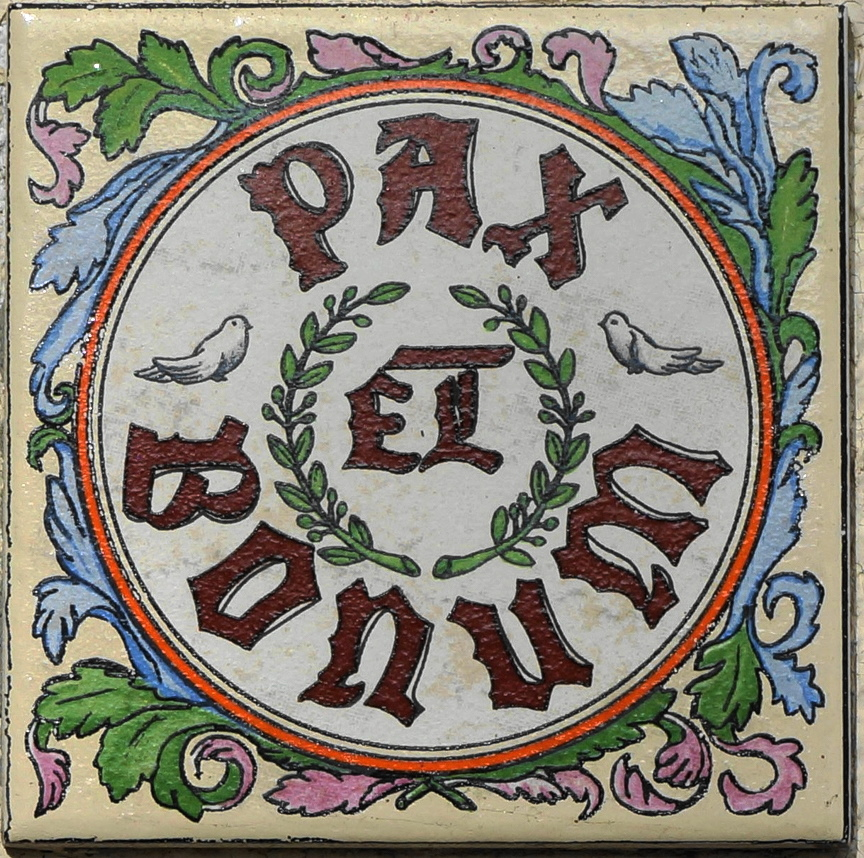 "Pax et Bonum" means "peace and well-being". This blessing has a long Christian tradition. It applies to those who leave the house as well as to those who enter it.